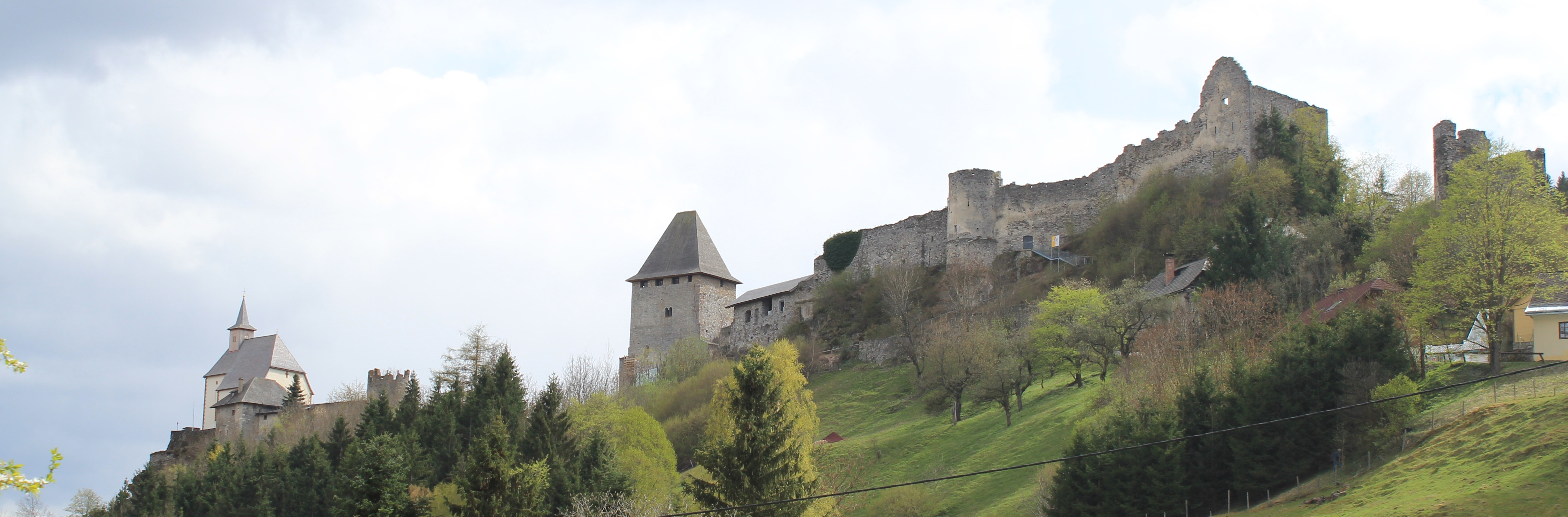 Petersberg in Friesach